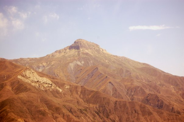 View of the peak of Gestinkil from the village of Dzhaba (Cheper), Dagestan.